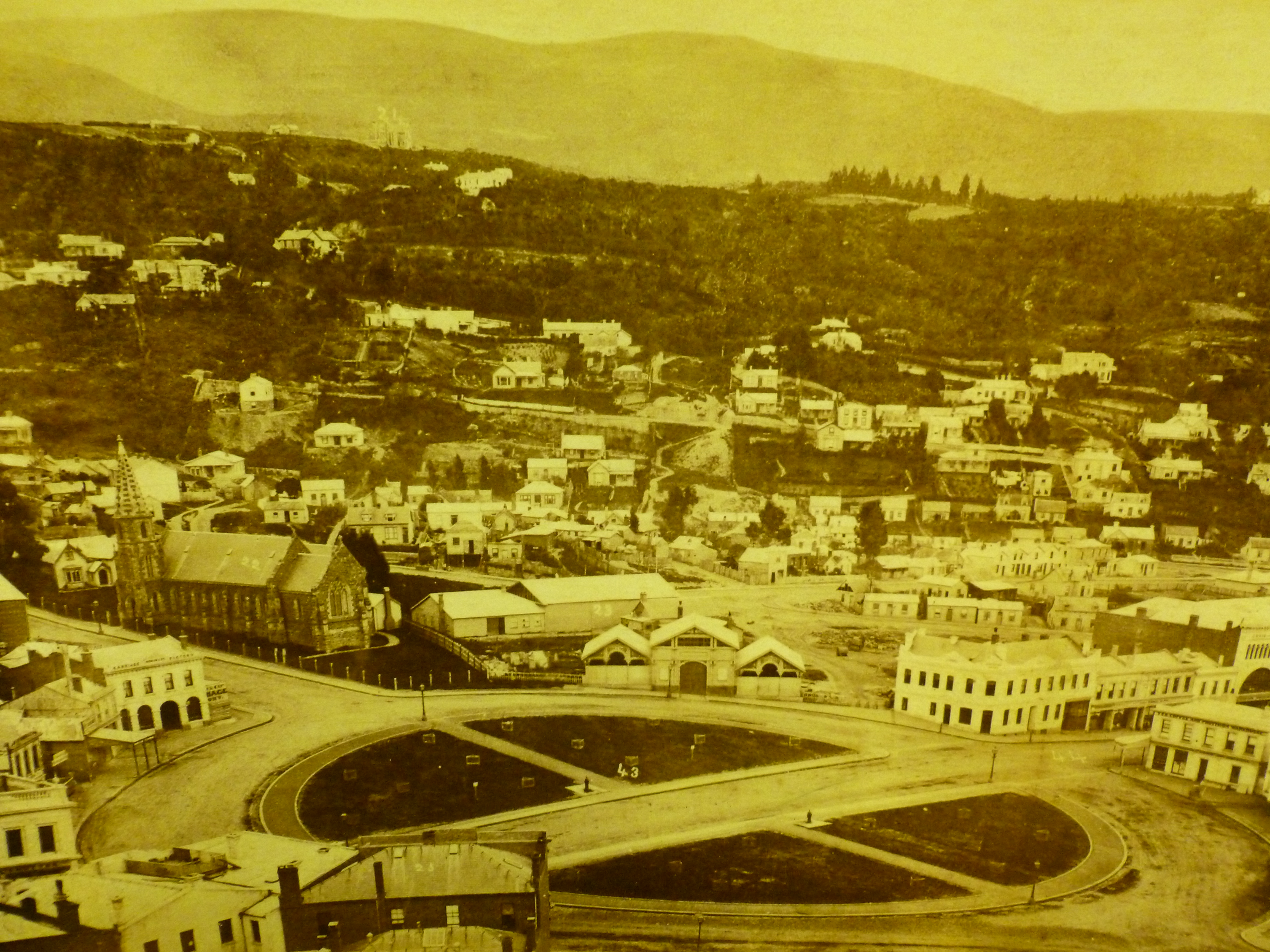 Dunedin from First Church Spire, 1874, Dunedin, by Burton Brothers studio